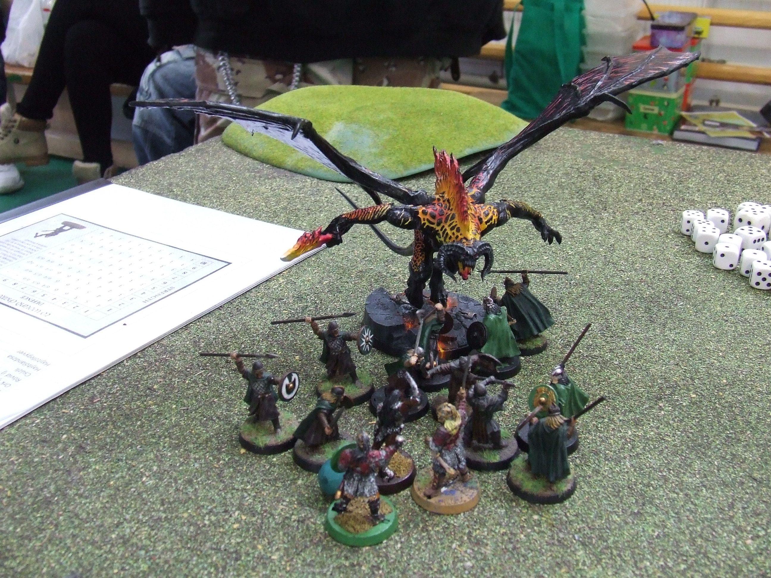 Games Day 2015, Budapest